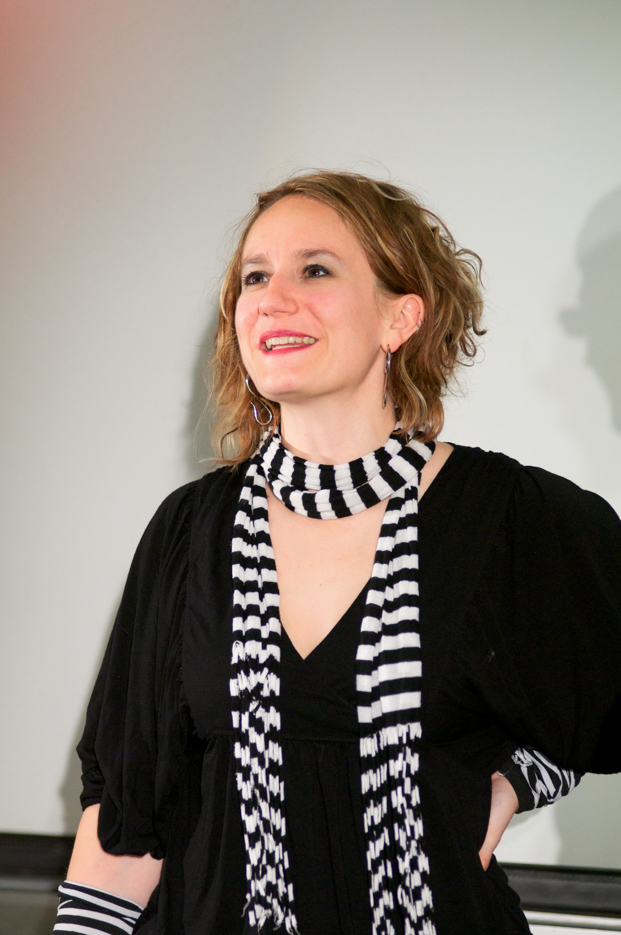 Danah Boyd, of Microsoft Research